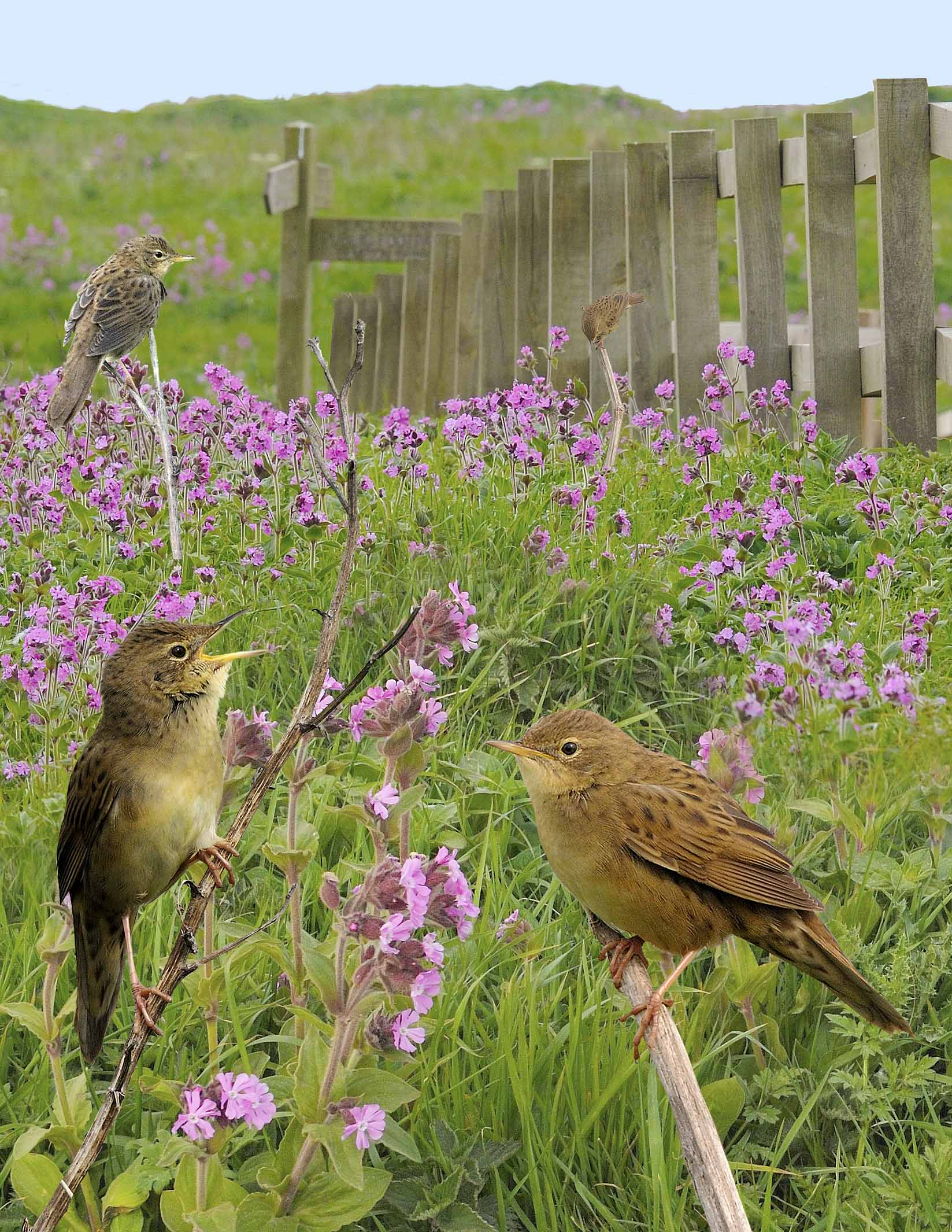 Grasshopper Warbler from the Crossley ID Guide Britain and Ireland